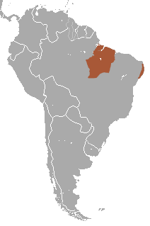 Red-handed Howler (Alouatta belzebul) range